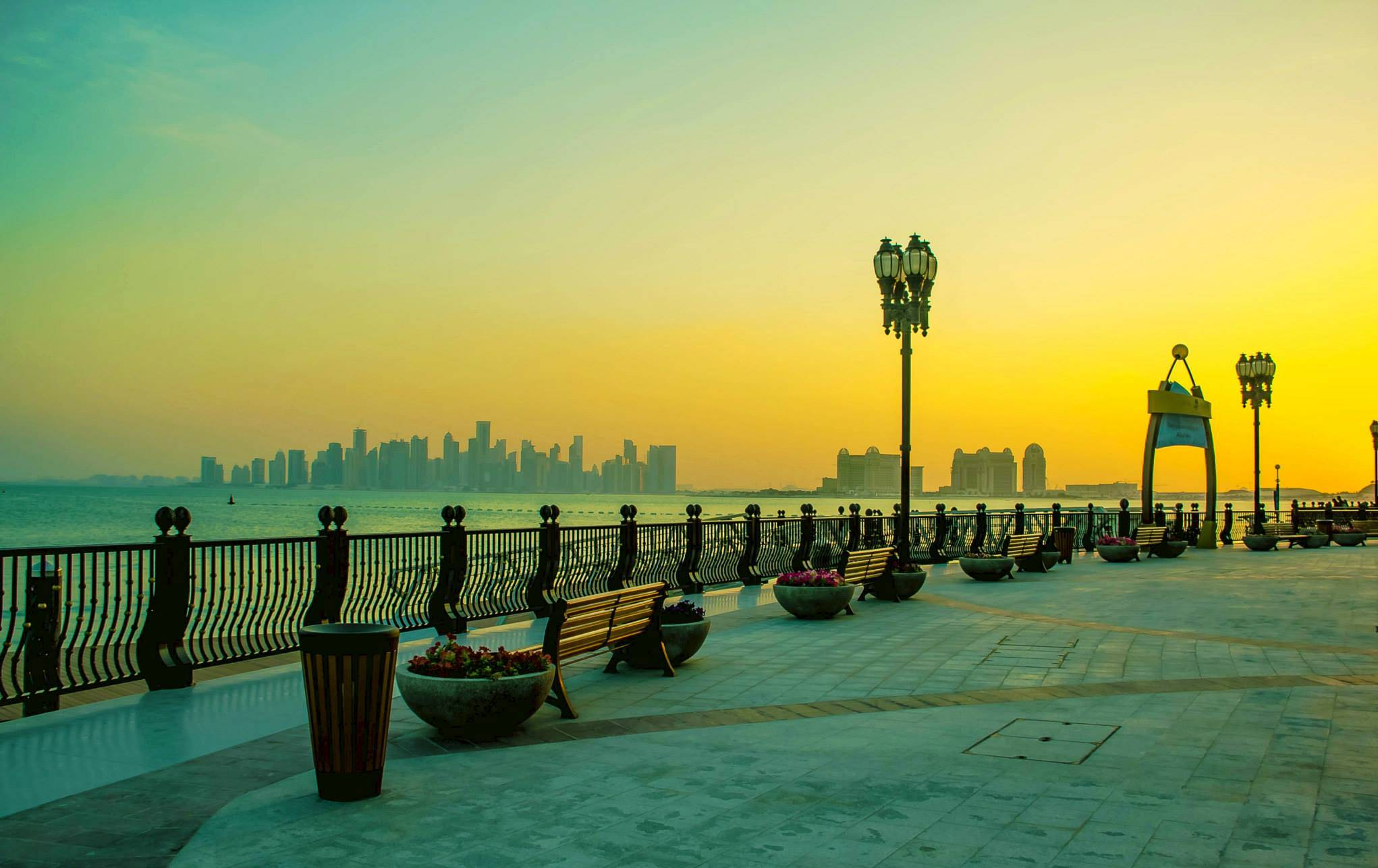 Doha skyline a view from Pearl Qatar at Evening